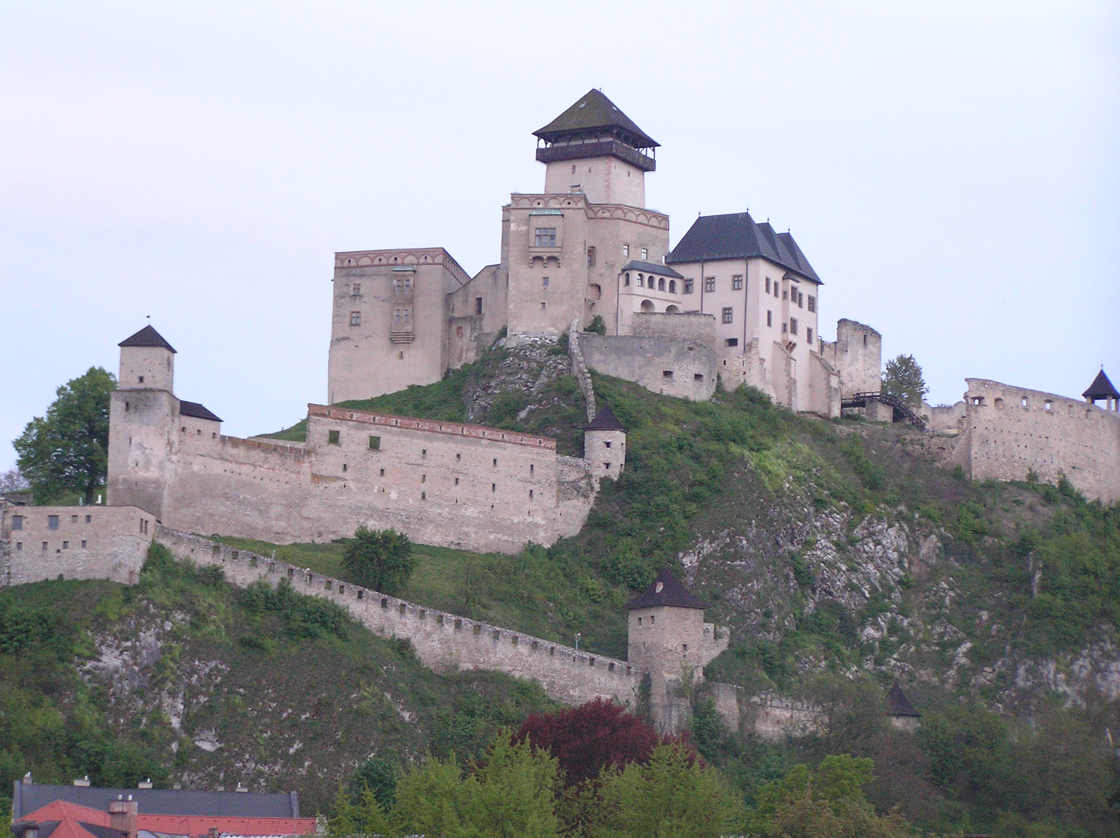 Panorama of Trencin Castle from the west